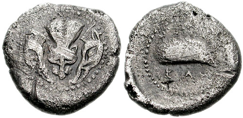 Campania, Cumae. Circa 475-470 BC. AR Nomos (20mm, 7.06 g). Facing lion's scalp, flanked on either side by boar's head Large mussel shell. Rutter 3 (O3/R3); SNG ANS -; SNG France 550; HN Italy 515. Near Fine, toned, porous with a number of scrapes. Very rare. From the Tony Hardy Collection. Ex Classical Numismatic Group 64 (24 September 2003), lot 19.